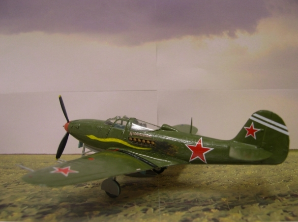 1/72 scale model of American made Bell P-39 Airacobra in Soviet World War II service, the type flown by Amet Han Sultans of Soviet Airfoce.